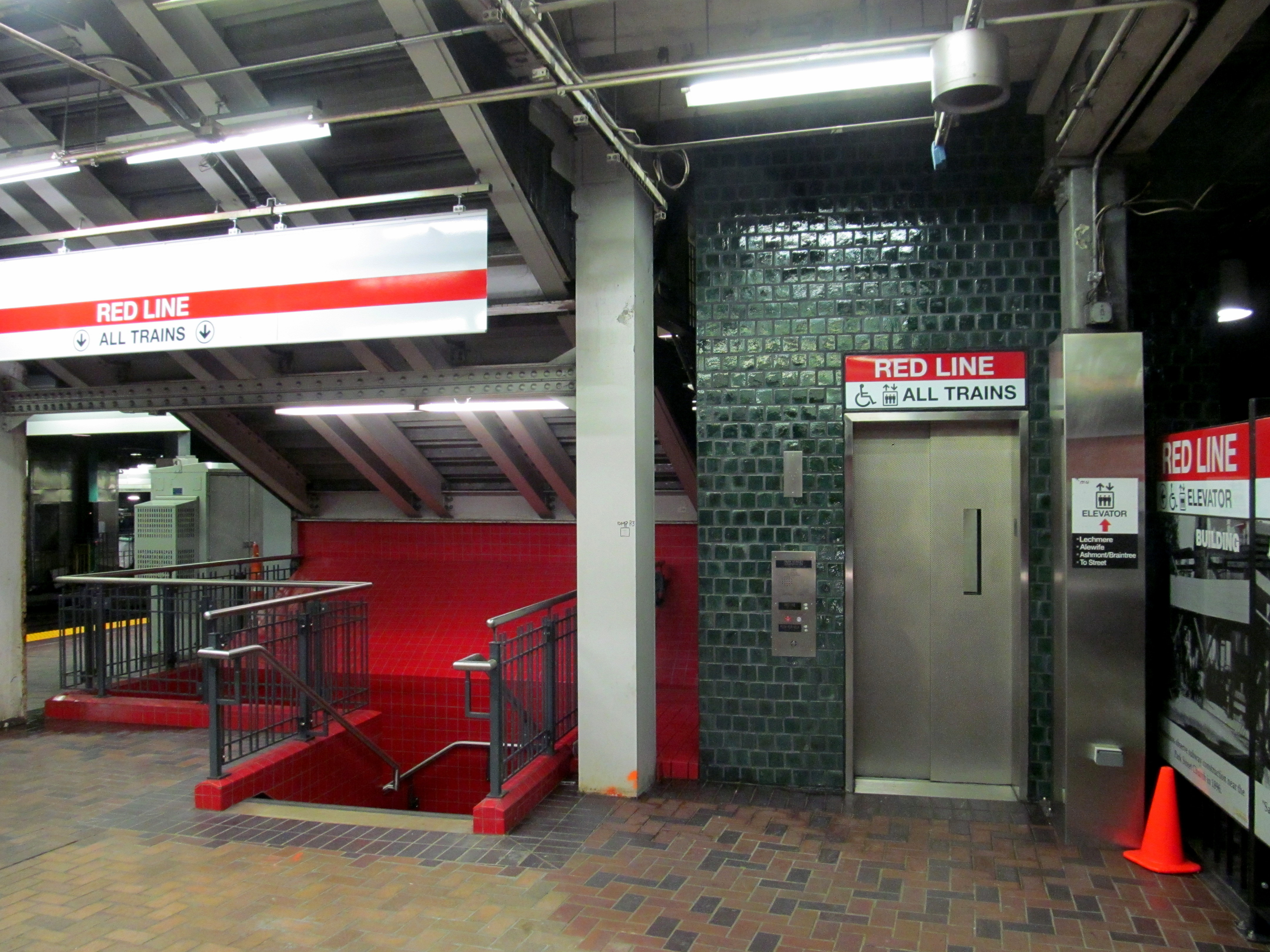 New elevator at Park Street, leading from the westbound Green Line platform to the Red Line island platform. This new elevator opened on December 21, 2012.